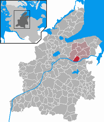 Locator maps of municipalities in Schleswig-Holstein - District Rendsburg-Eckernförde